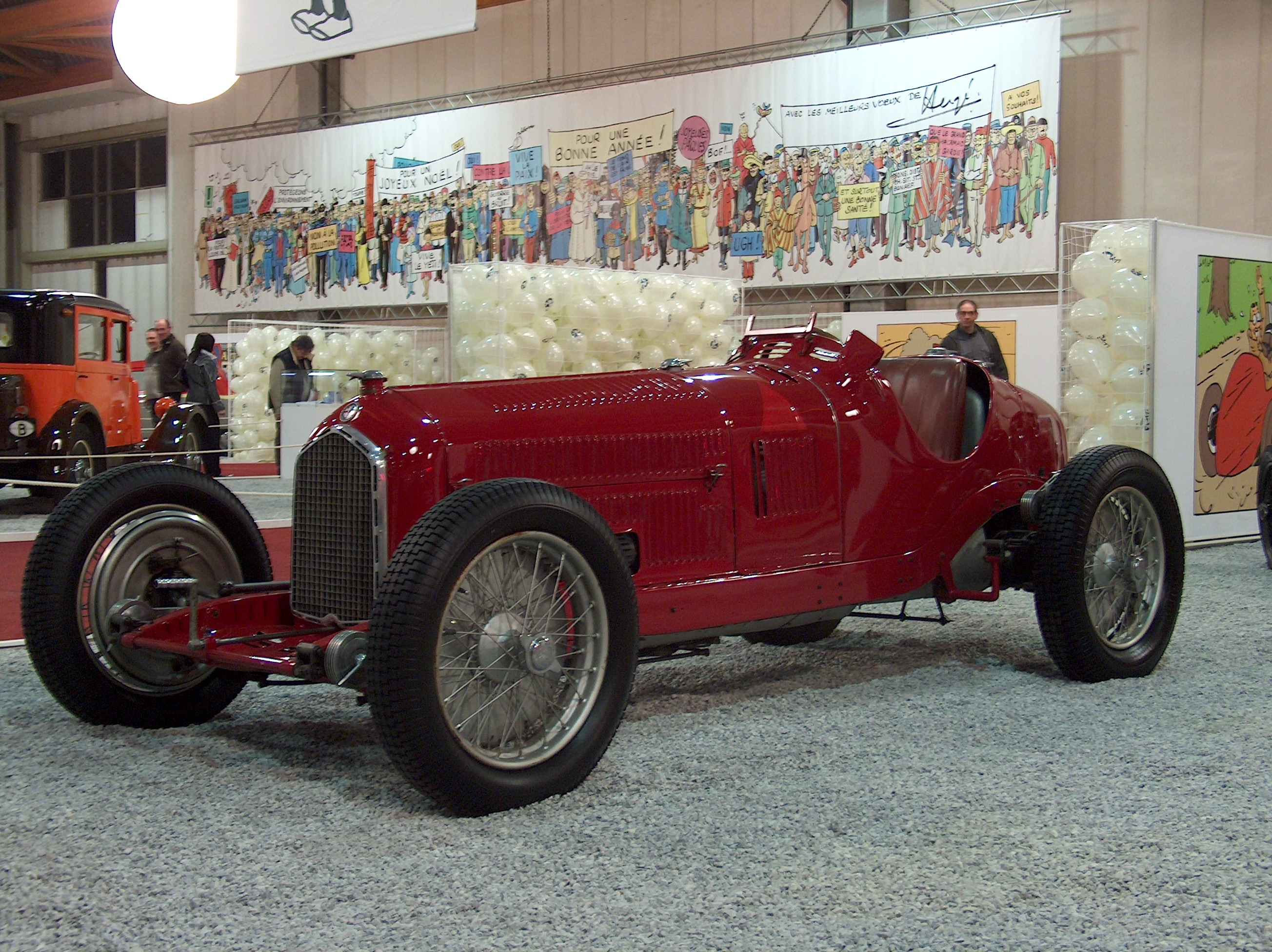 Alfa Romeo P3 - 1932